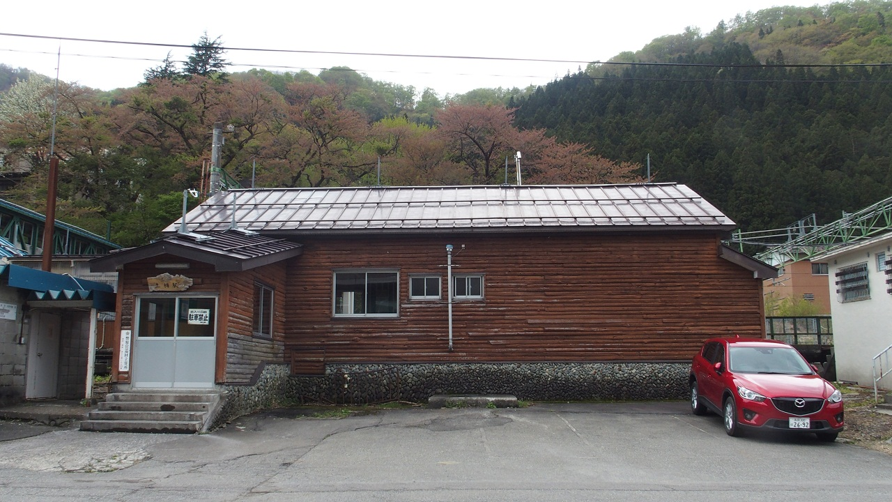 Tsuchitaru Station